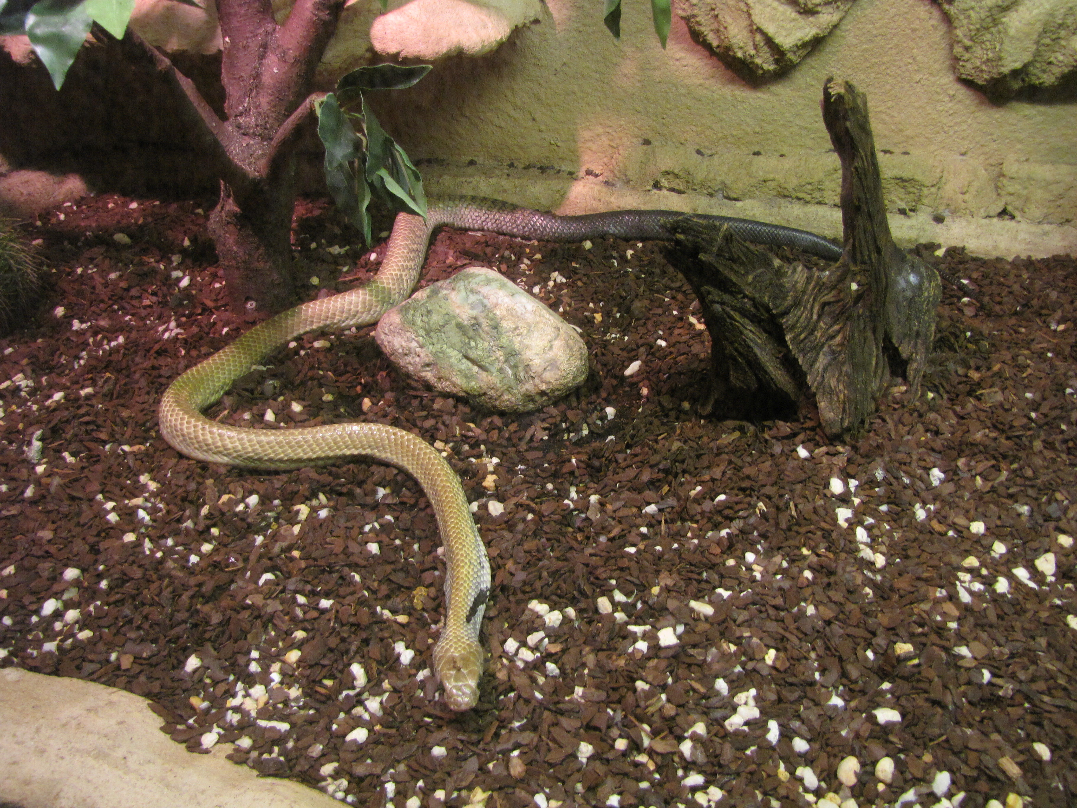 Blacktail Cribo (Drymarchon melanurus) in Helsinki Tropicario Zoo.